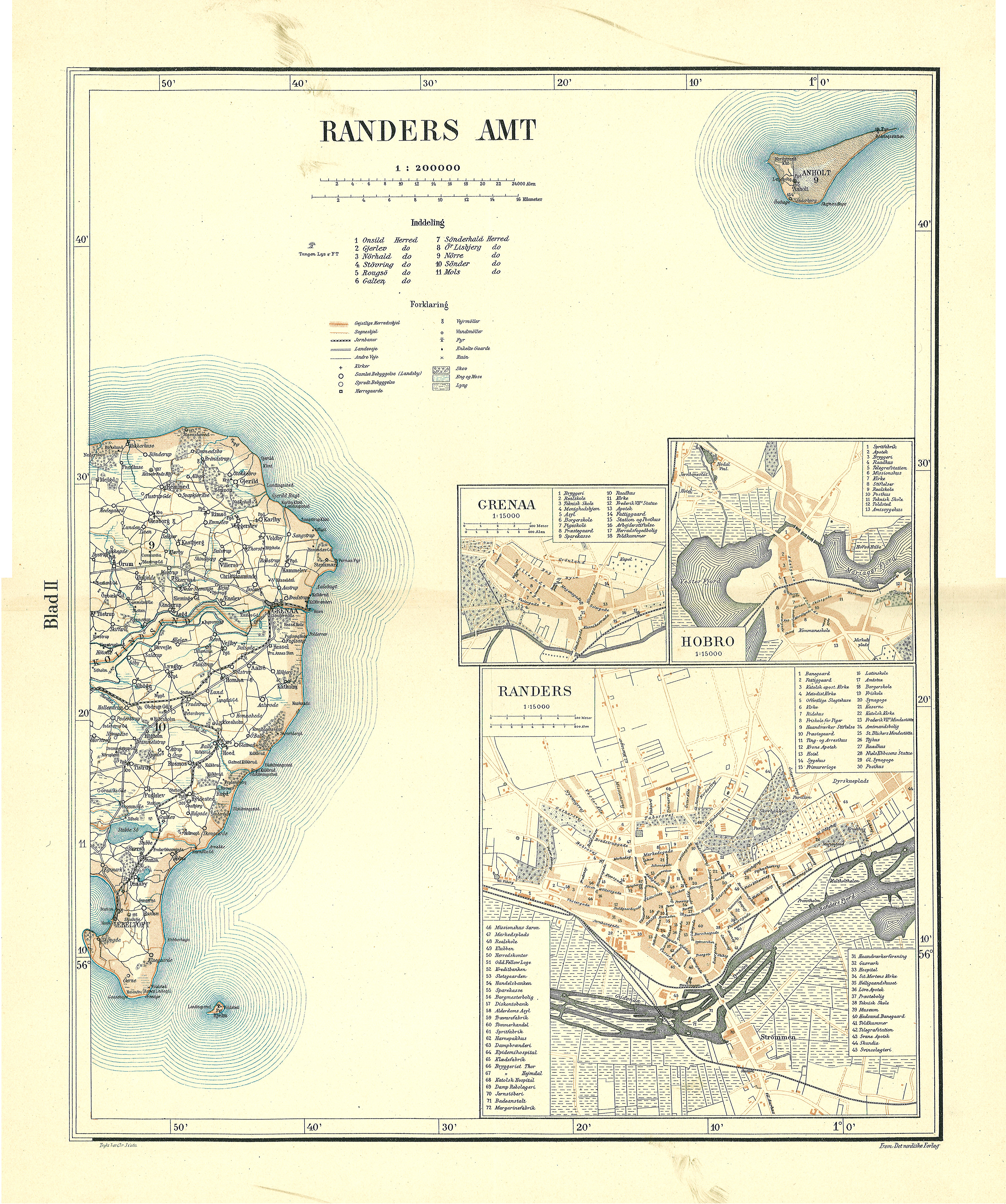 Map of the eastern part of Randers County in Denmark